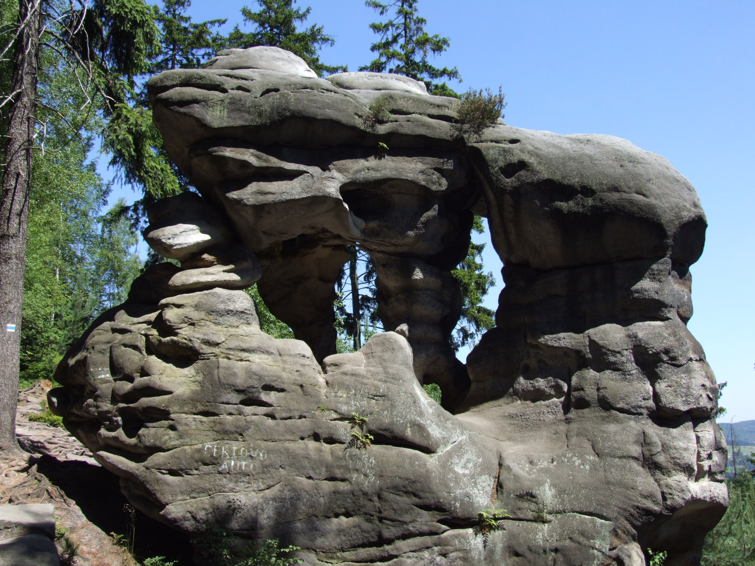 Ostaš - sandstone formation (Čertovo auto) in the Czech Republic